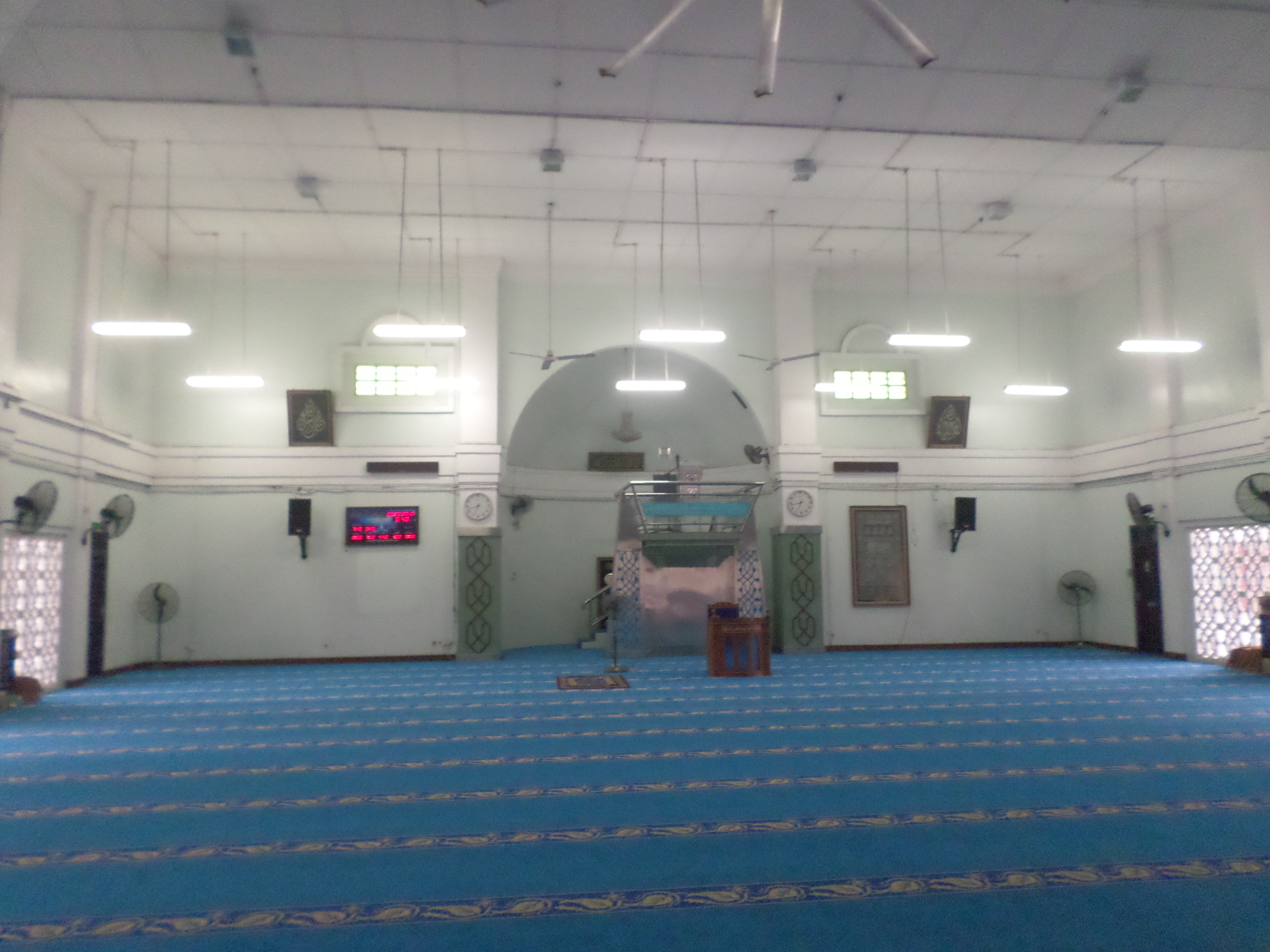 Pasir Gudang Jamek Mosque, Pasir Gudang, Johor Bahru, Johor, Malaysia